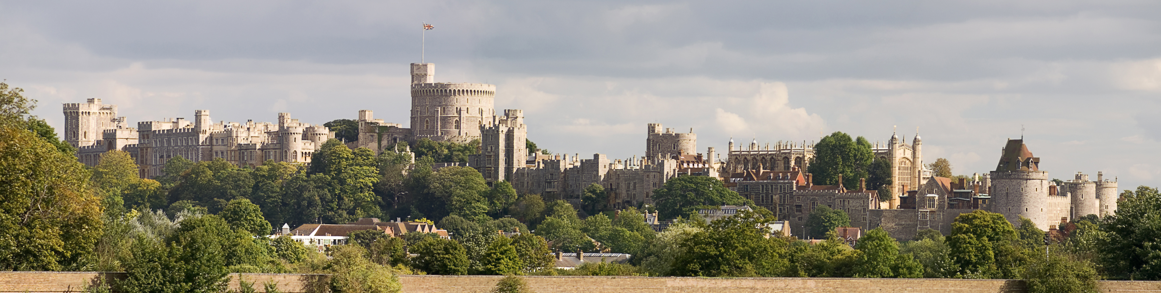 Windsor Castle UK Full aspect panorama showing St Georges Chapel, Curfew Tower, Round Tower, Upper & Lower Wards